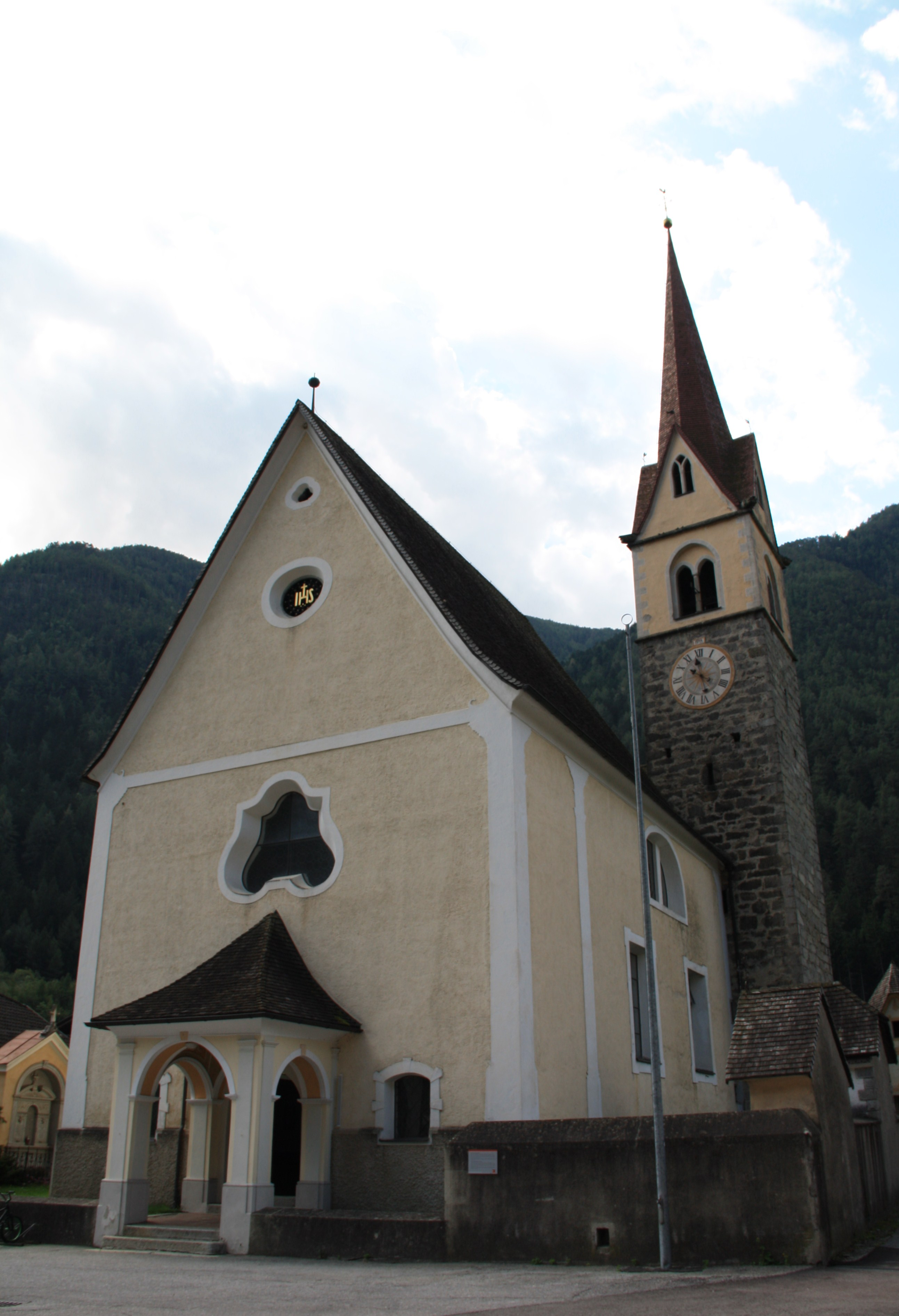 Italy, South Tirol, Mittewald, Pfarrkirche zum Hl. Martin. The first evidence of a church in Mittewald date back to 1345 and was reconsacrated in 1473. The present church was built in 1831 under the direction of Jakob Prantl then curate of Pfitsch who incorporated the Late Gothic bell tower in the new church. The ceiling frescos representing the Adoration of the Sacrament by the four continents and the death of Saint Martin are by Josef Renzler dating from 1832. The altarpieces represents the death of Saint Martin, the adoration of the Magi and Saint Sebastian are by Josef Renzler. Object location46° 48′ 24.74″ N, 11° 34′ 25.67″ E